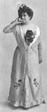 A white woman, standing, in a light-colored gown with floral embellishments; she has one hand at her side, and one against her chin.